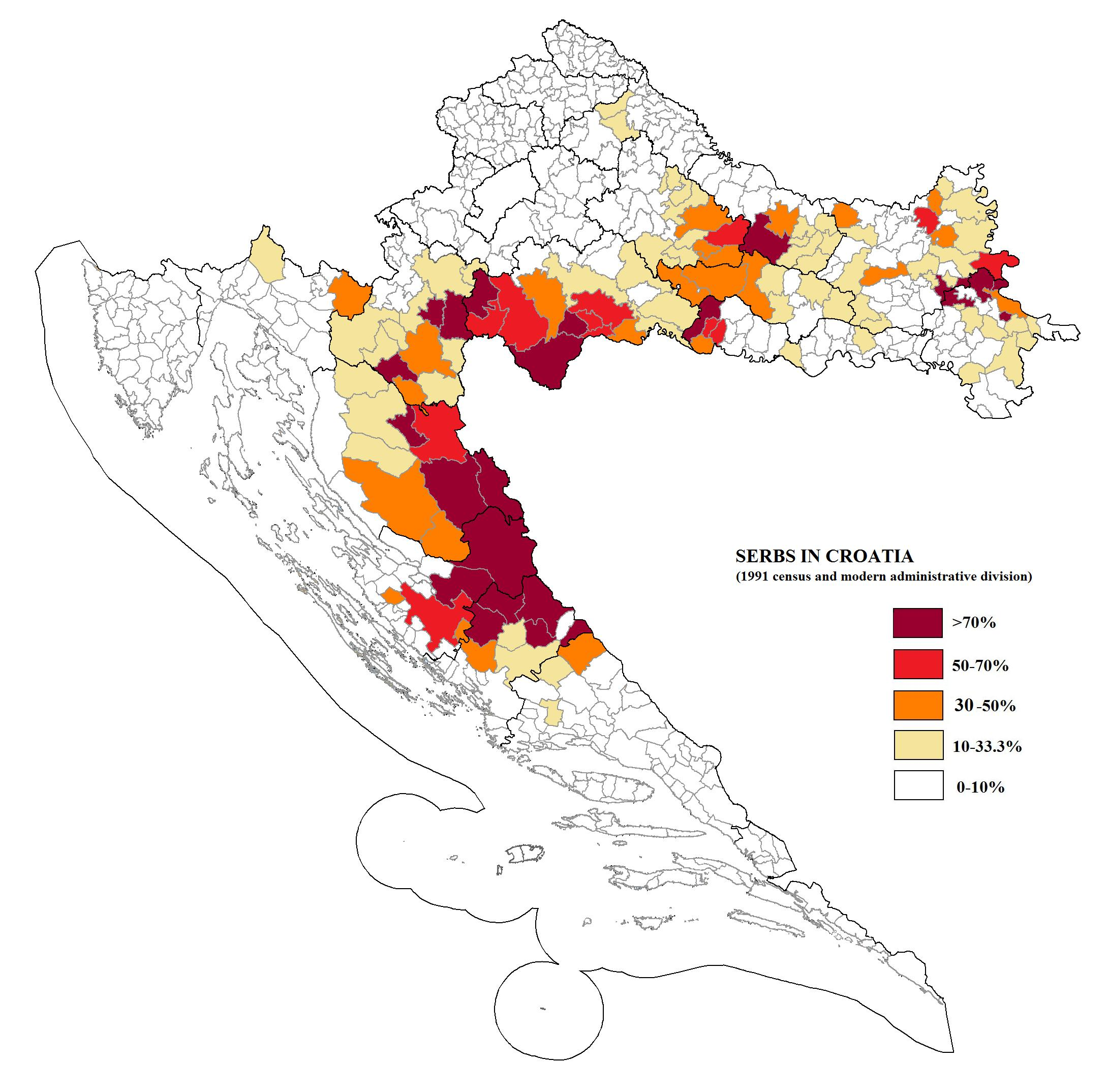 Serbs in Croatia 1991 (modern administrative division) per source (